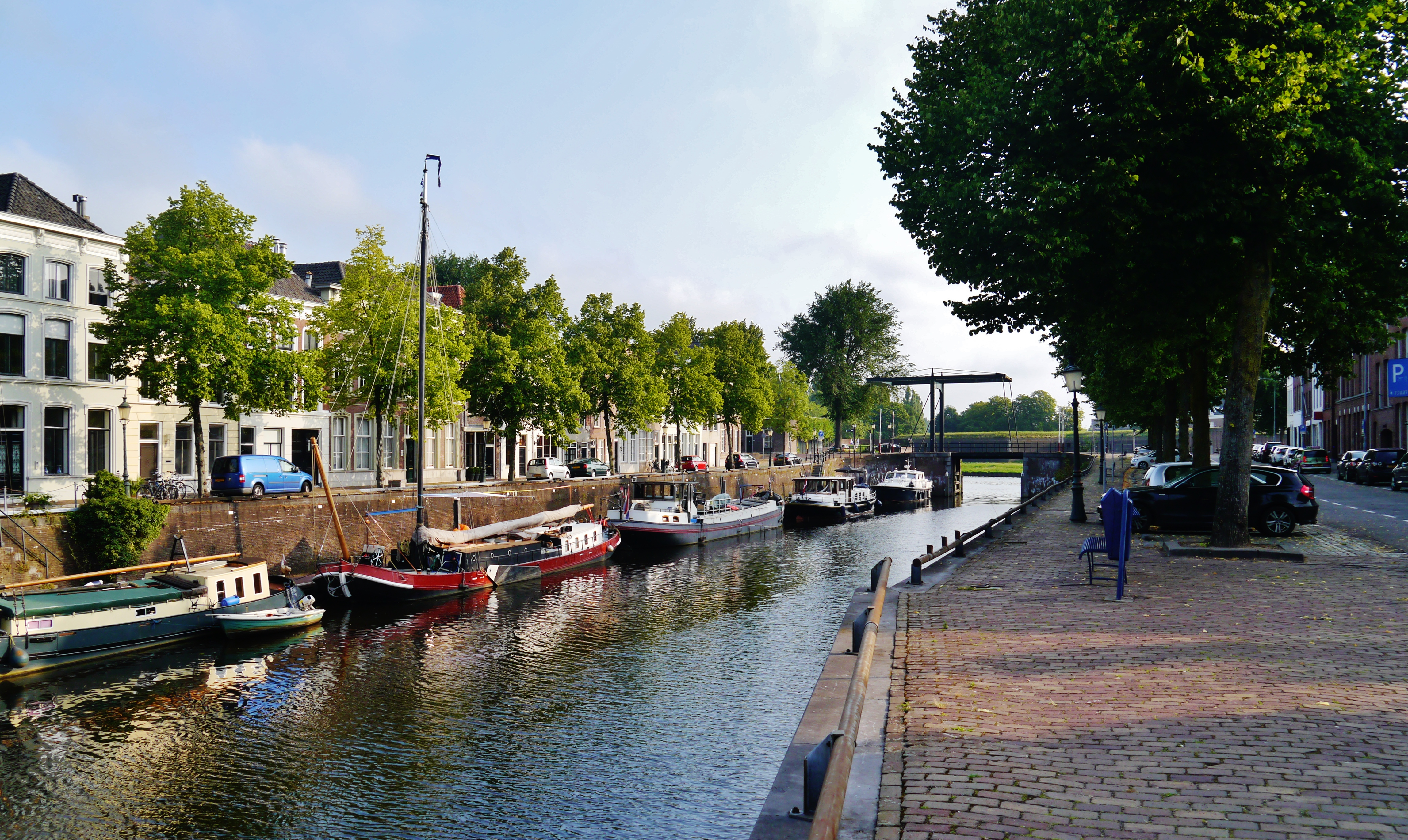 Binnendieze, 's-Hertogenbosch, Province of North Brabant, Netherlands